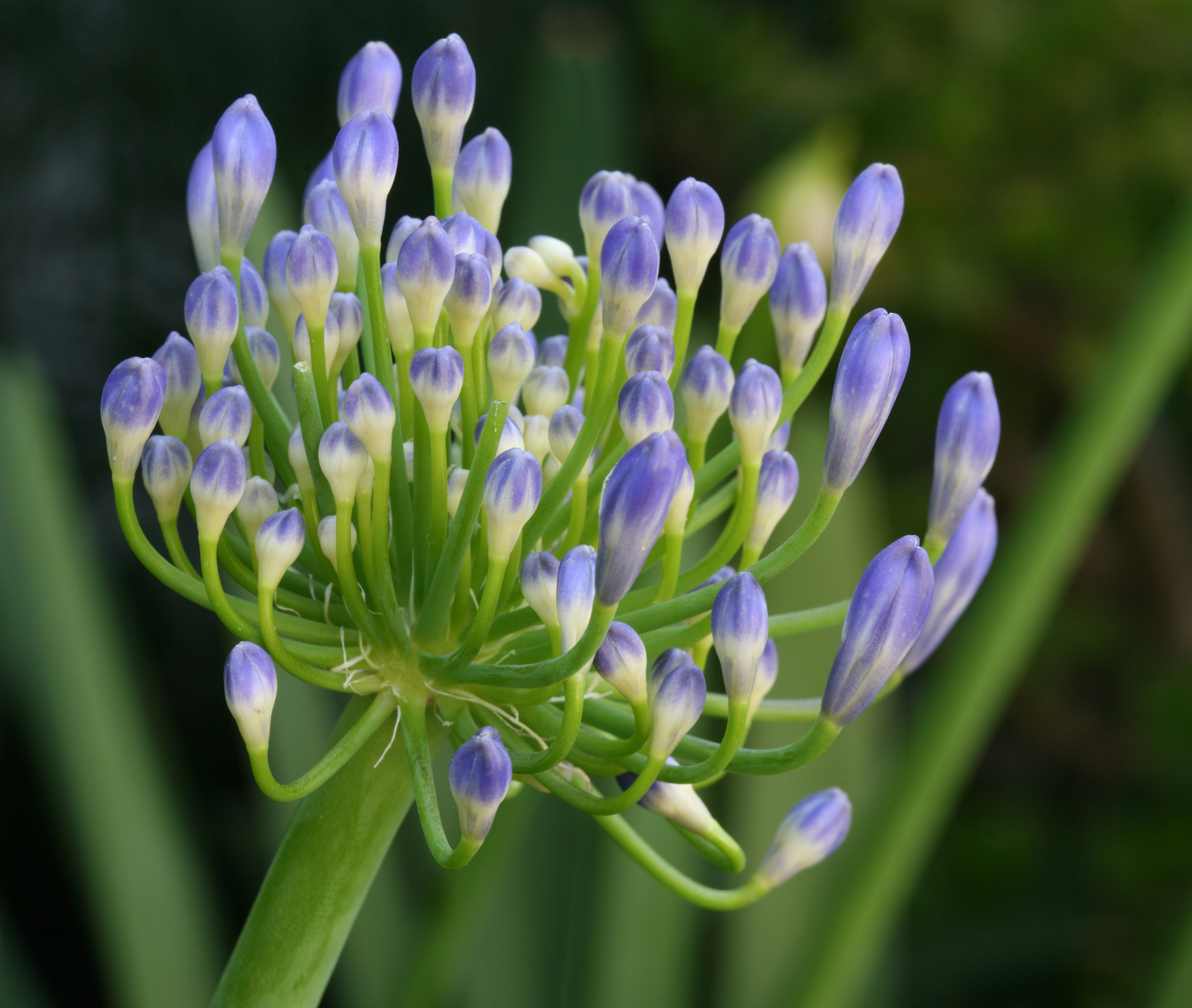 An Agapanthus flower arrangement before blooming.